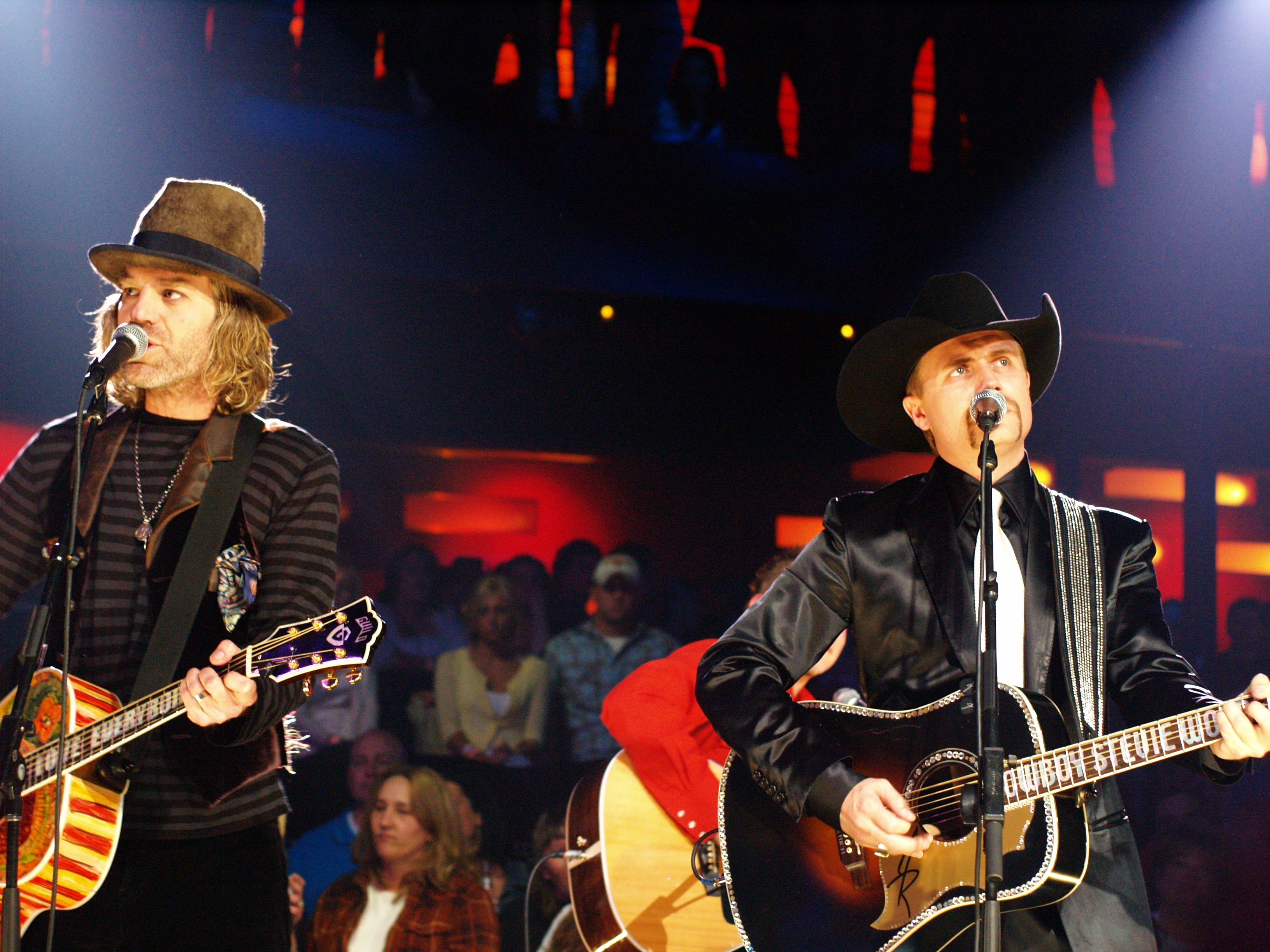 Big & Rich on stage